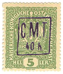 Stamp of the Romanian military authorities for an occupied territory of Ukraine, 1919